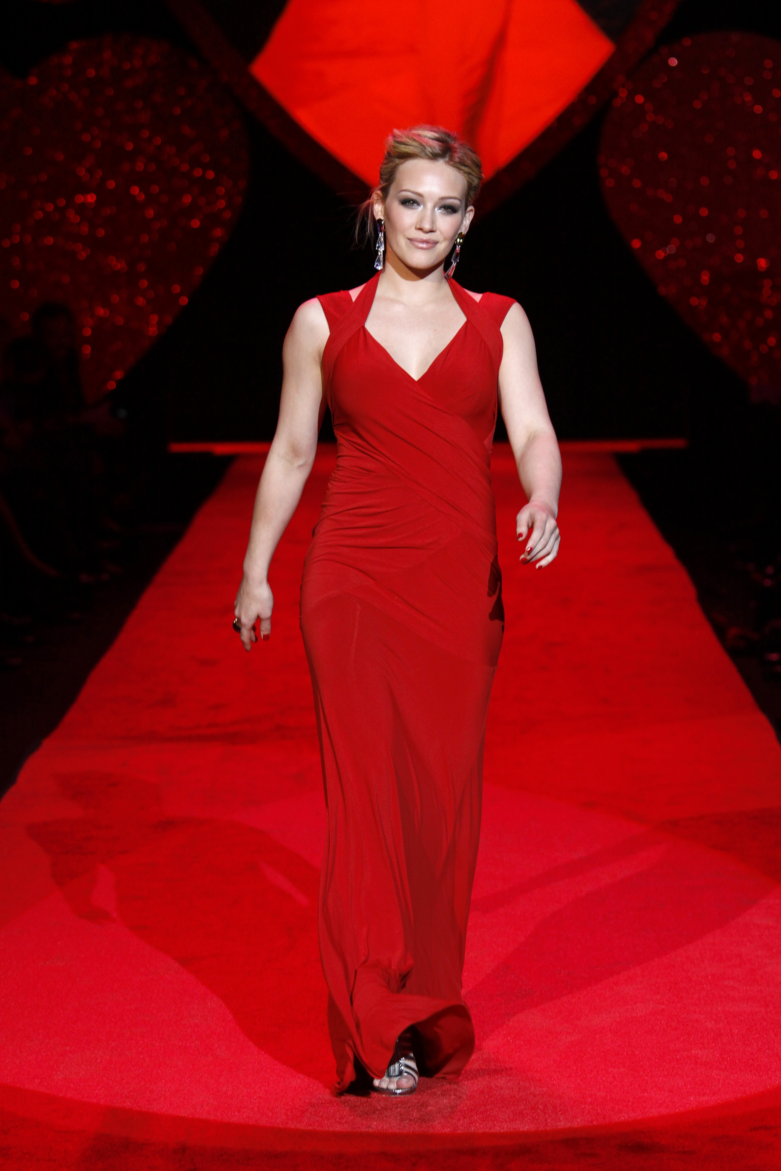 Hilary Duff at The Heart Truth's Red Dress Collection Fashion Show during New York Fashion Week. February 13, 2009 at Bryant Park.